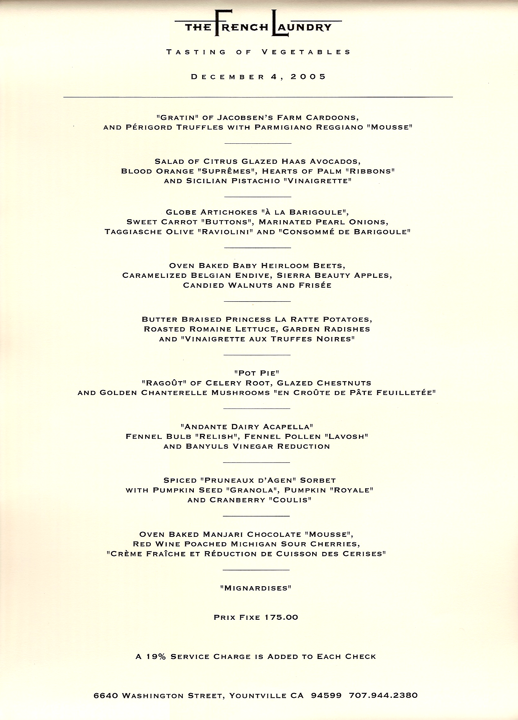 French Laundry vegetarian option for Sunday 2005-12-4, one of three menus that day.